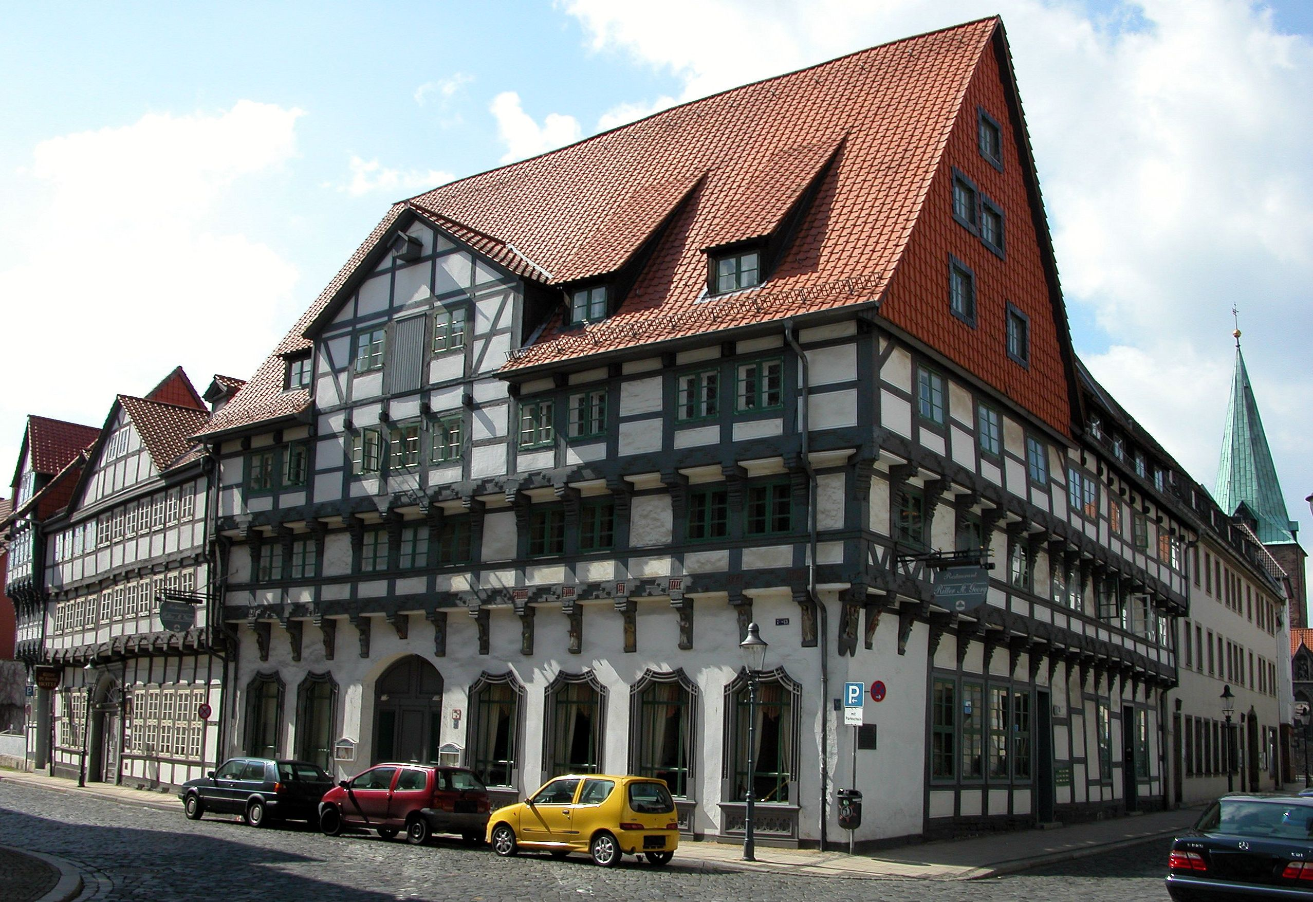 Braunschweig, Germany: House “Ritter St. Georg” (Knight St. George). On the right hand side in the background the tower of St. Michael’s Church.